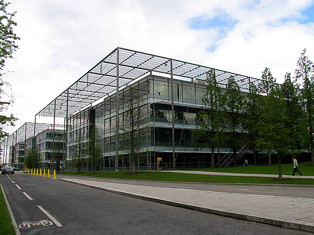 Chiswick Park. The Chiswick business park is situated opposite the BSI building at Gunnersby tube station. This view was taken from the A205 looking north.